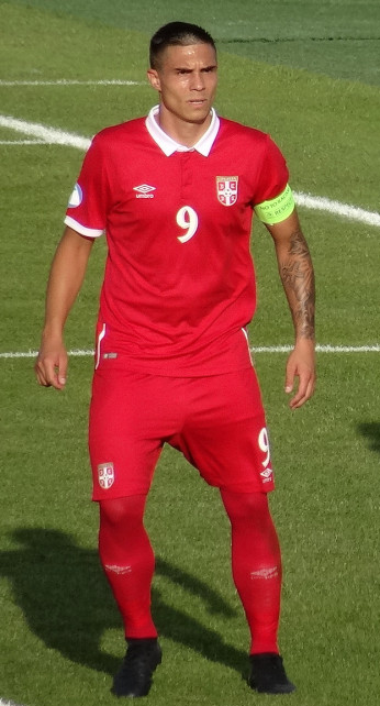 UEFA European U-21 Championship Poland 2017. Group B Serbia - Macedonia (2:2), Zdzisław Krzyszkowiak Stadium in Bydgoszcz